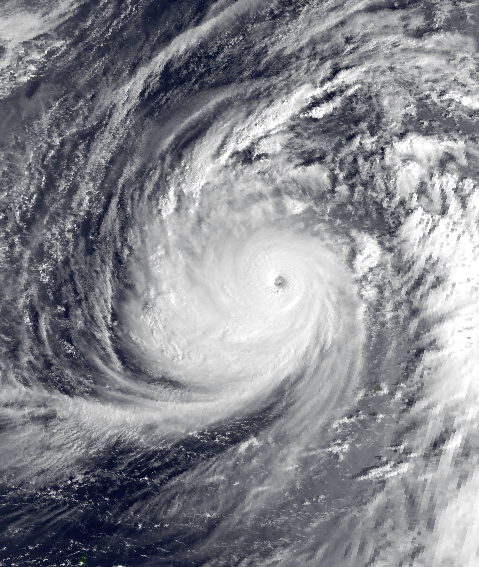 Typhoon Lynn on October 19, 1987